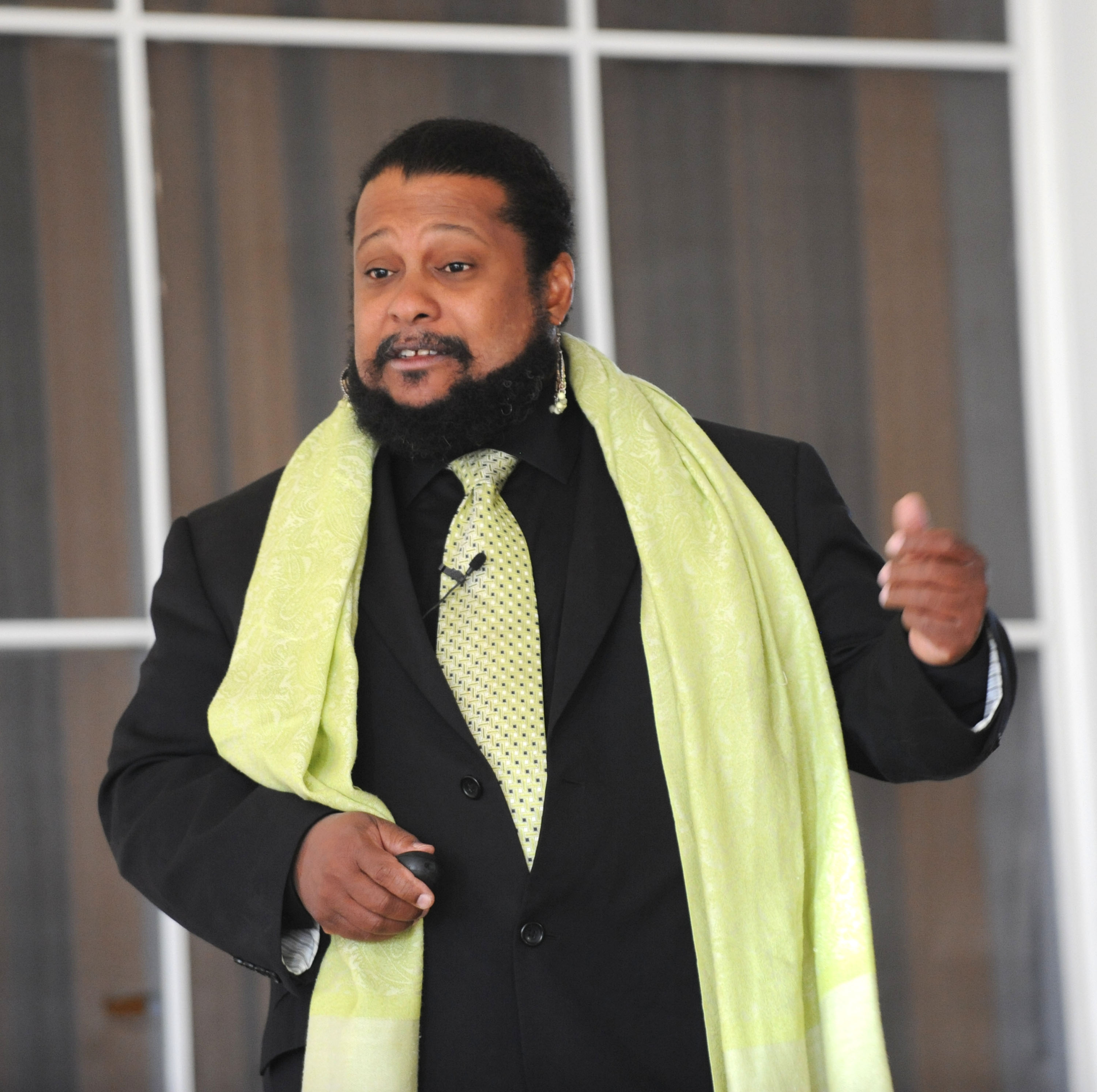 Biologist Dr. Tyrone Hayes spoke to students at King University on Monday as part of the Buechner Institute lecture series. Hayes in know for his work involving the effects of chemicals on amphibians.